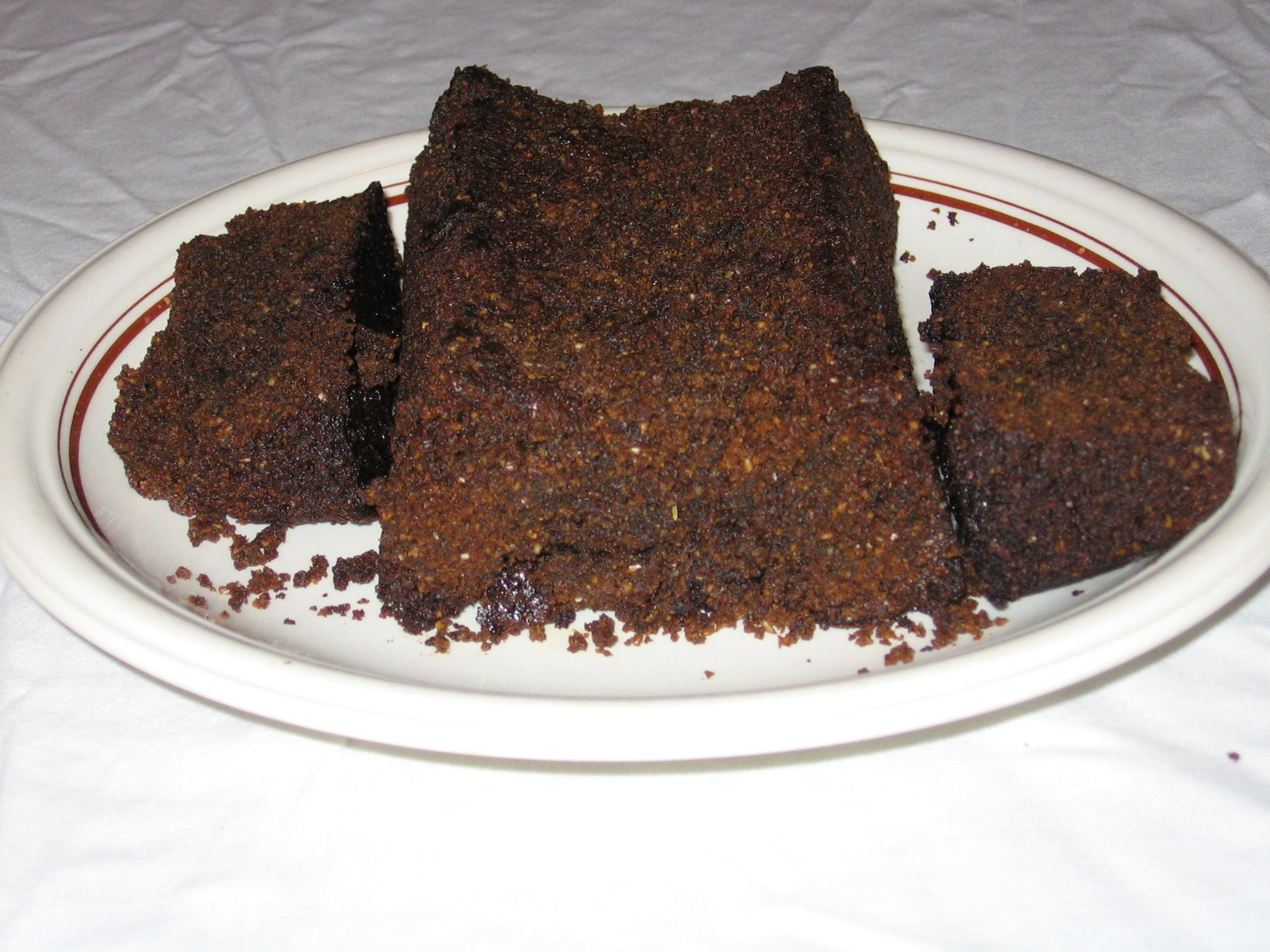 Traditional parkin which is dark due to treacle.